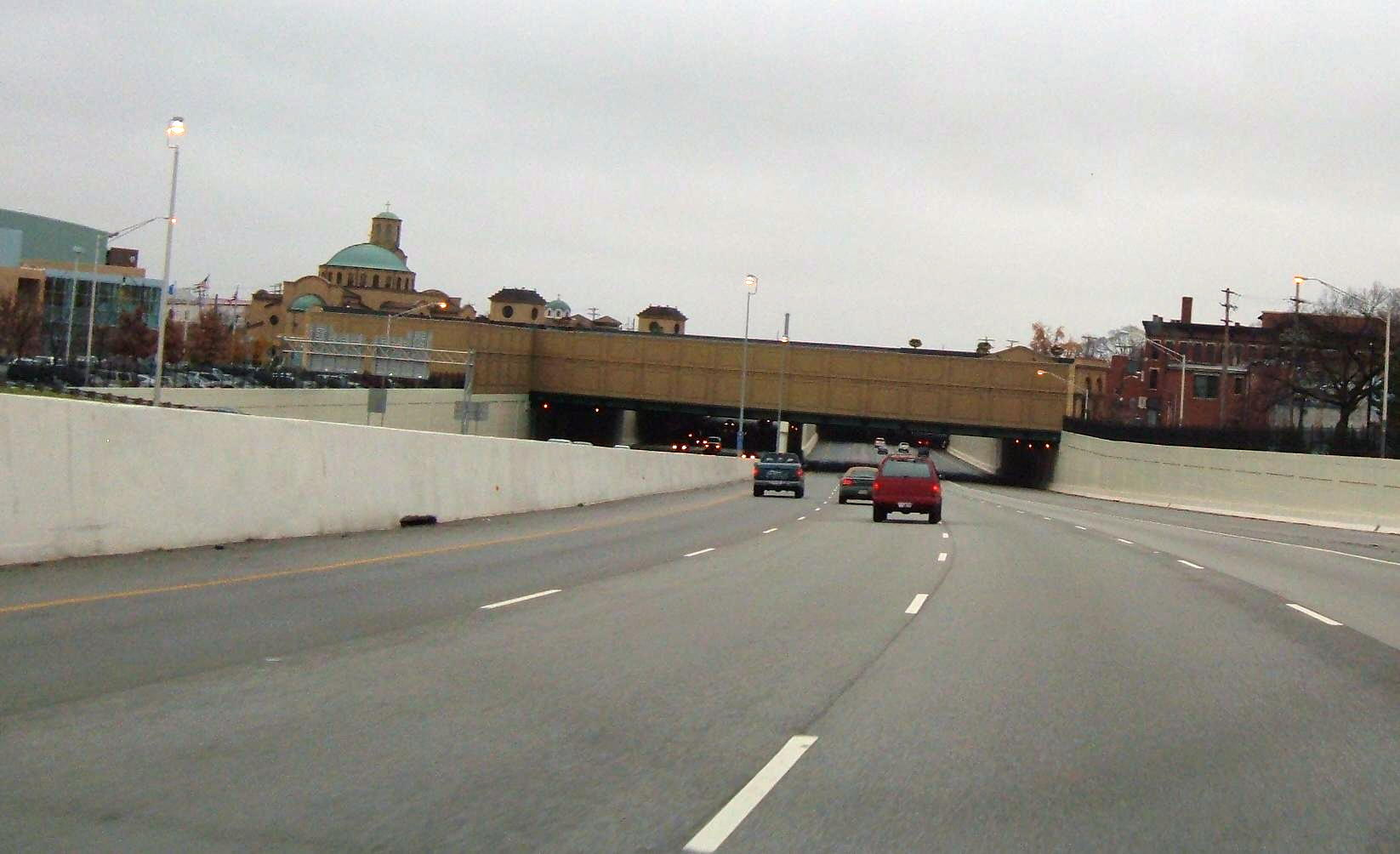 Interstate 670 Westbound at High St. Self made photo.